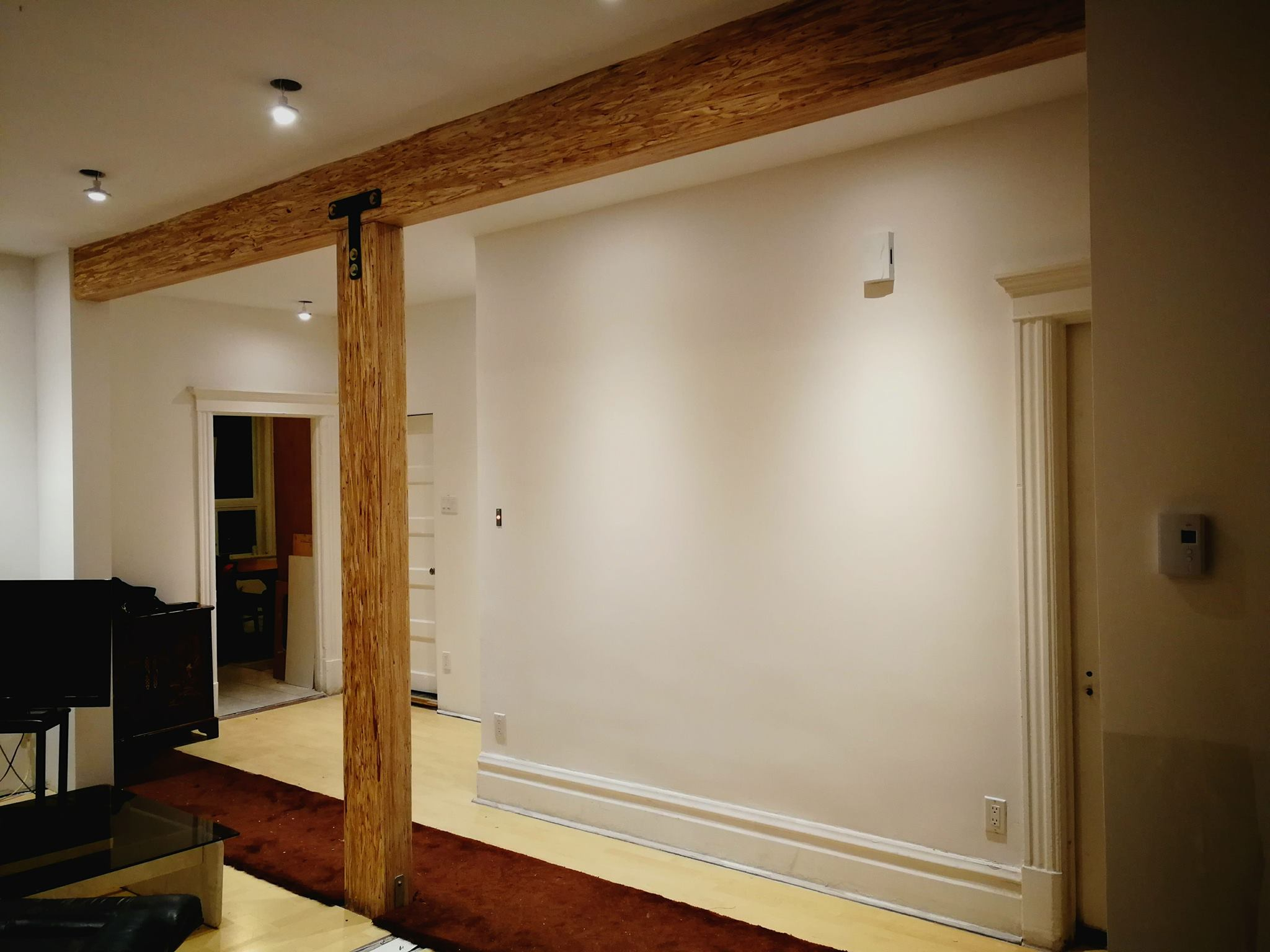 Parallam Parallel strand lumber in appartement